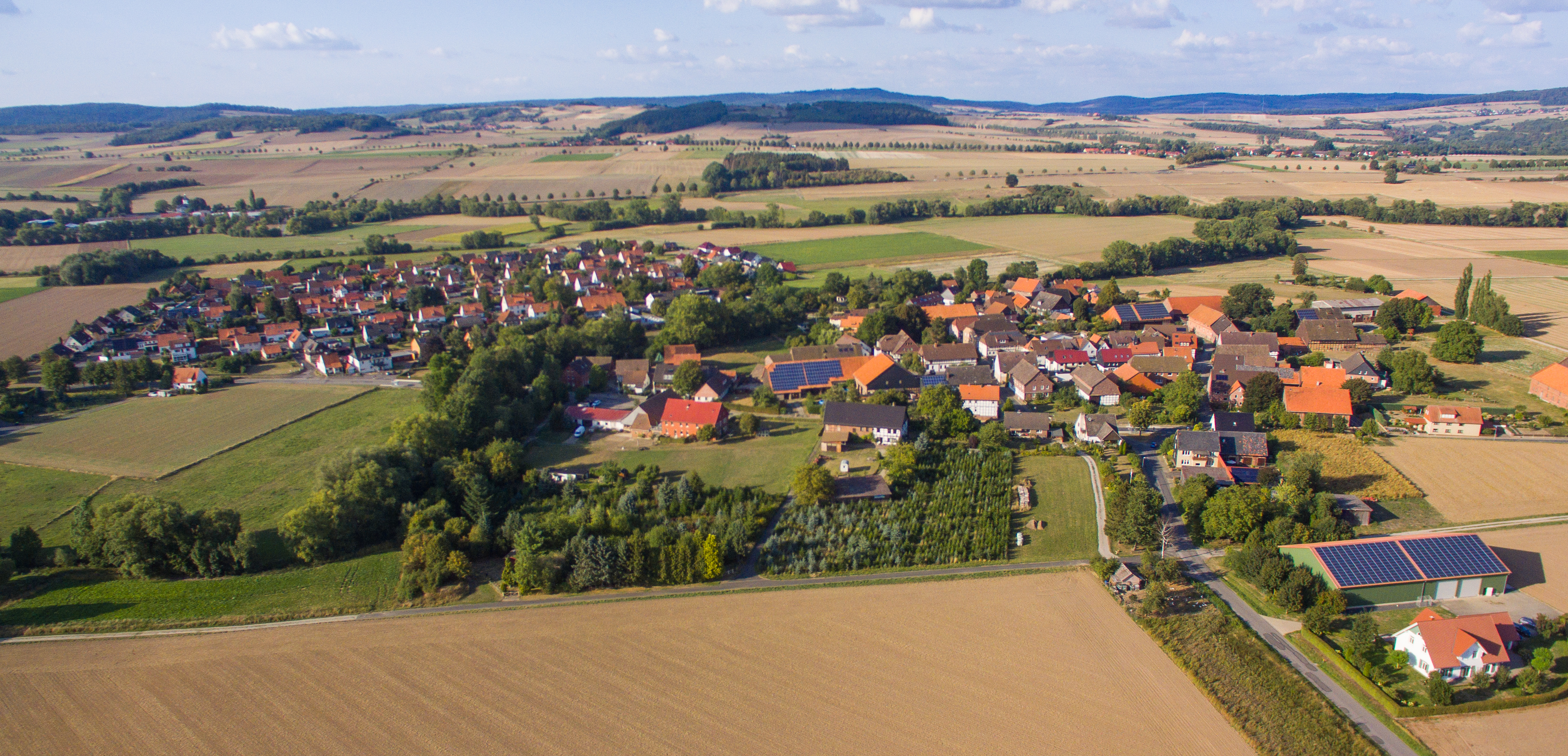 Aerial image of the village Holtensen (Einbeck) located in the south of Lower Saxony.